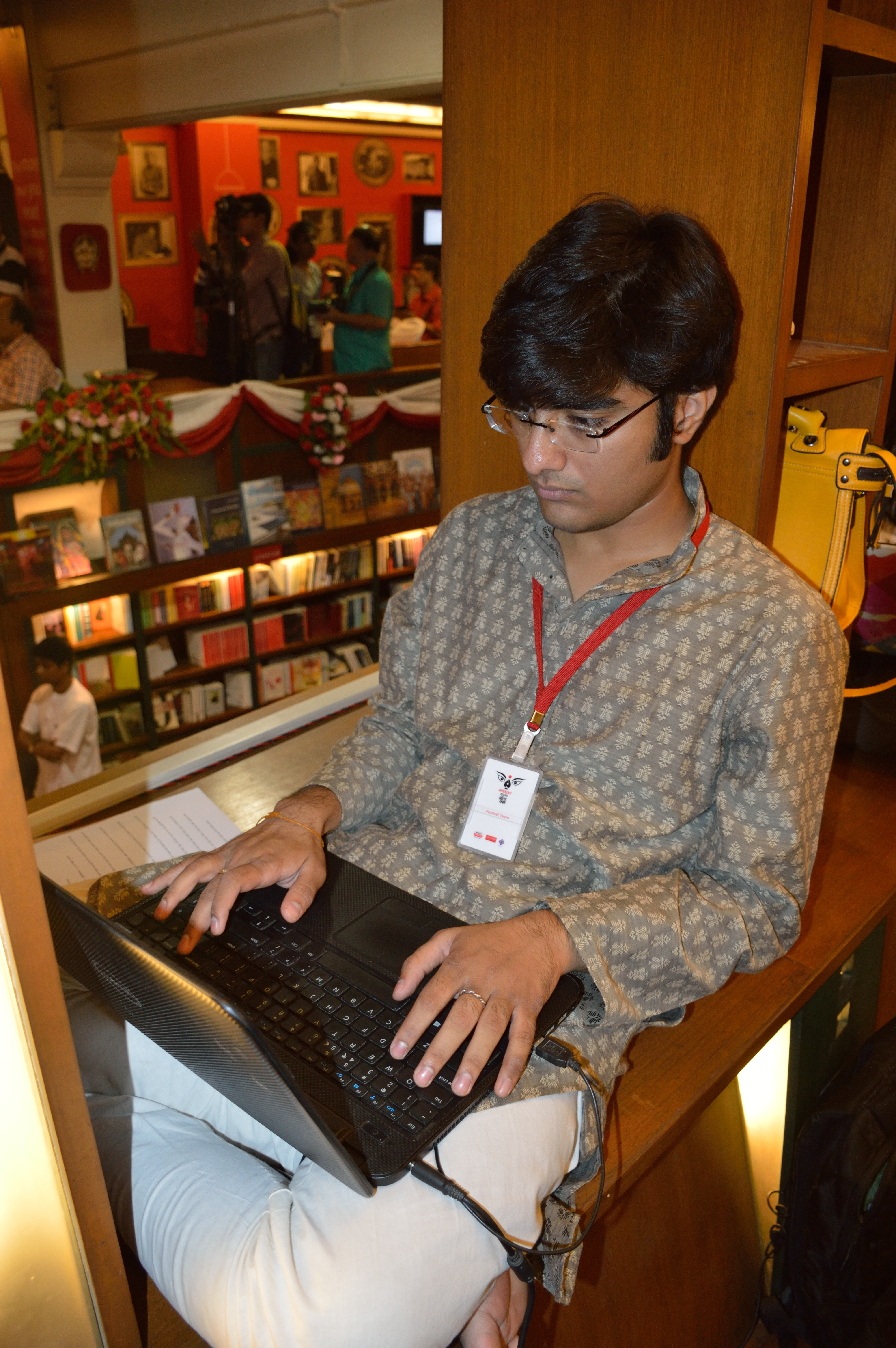 This shot was taken during the Apeejay Bangla Sahitya Utsab or Bengali Literary Festival at the Oxford Bookstore, 15 Park Street, Kolkata. The eight hours long one day festival was organaised by the Oxford Bookstore and the Patra Bharati - a publishing company. About two hundred literature lovers with eminent personalities were present at the public event. Wikipedia Kolkata community, local bloggers and other medias were also supported the programme.